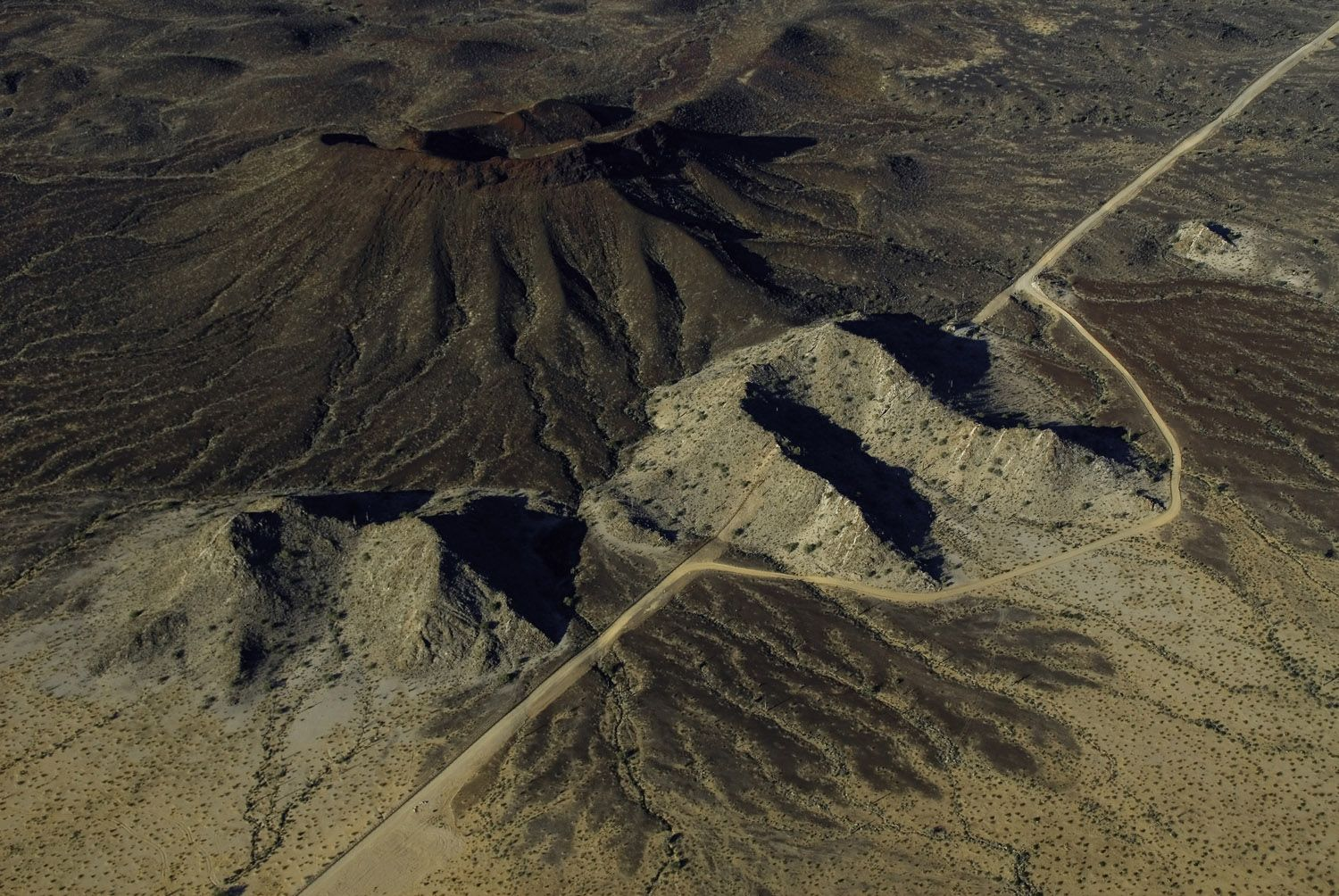 Border wall west of Sonoyta, SON.